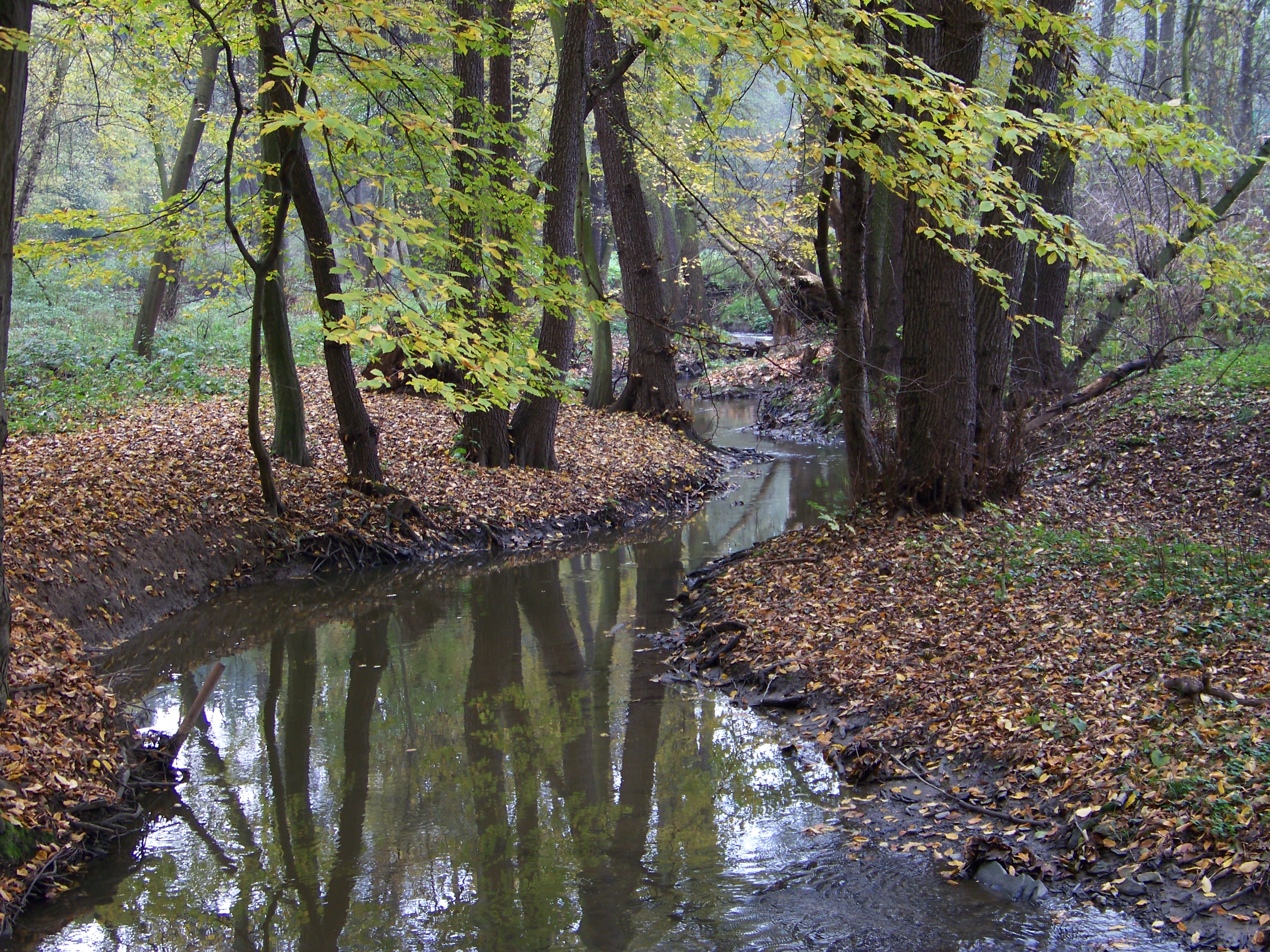 Prague-Kunratice, Czech Republic. Kunratice Forest, Kunratický potok.